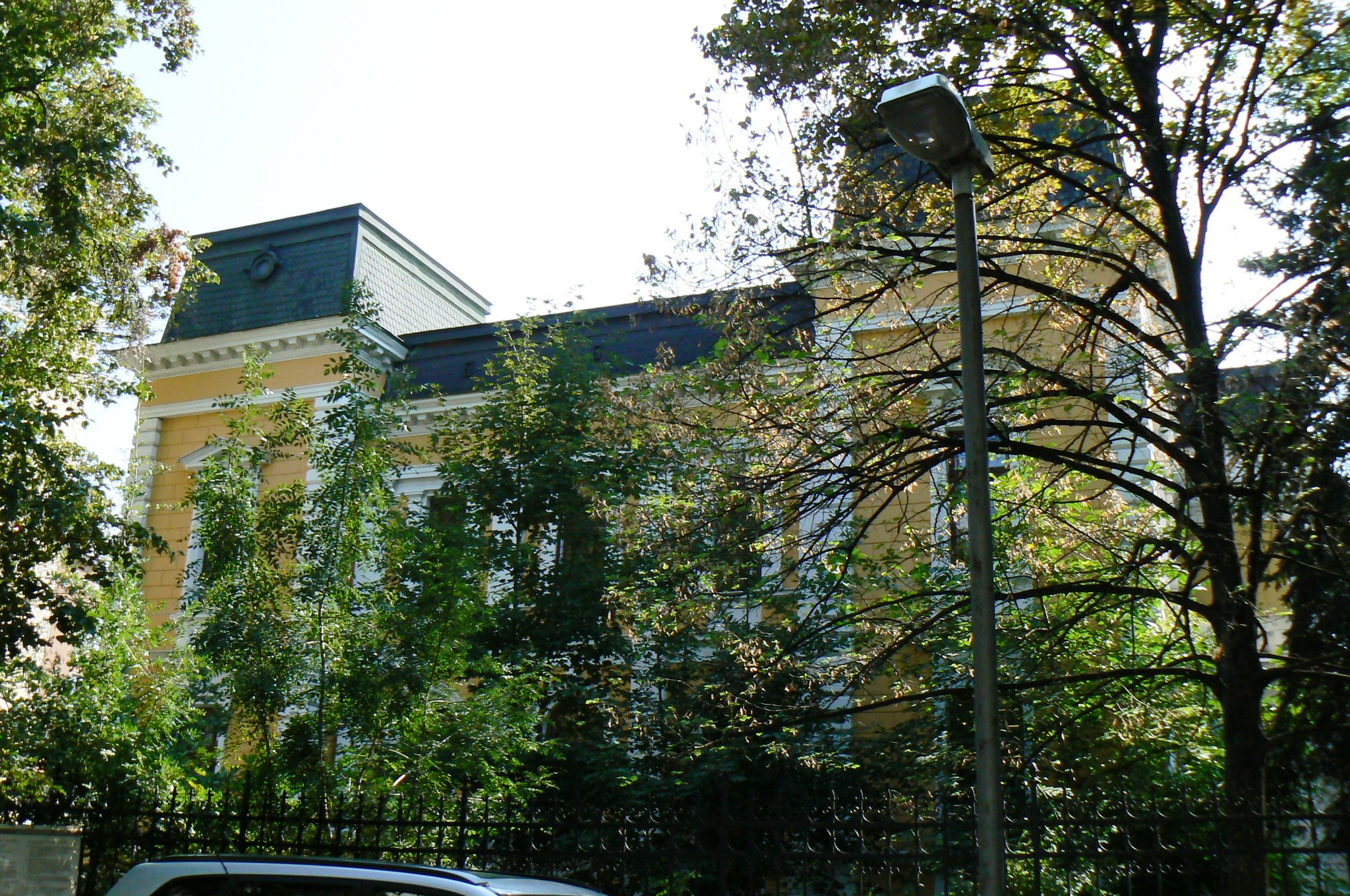 Union of architects, "Krakra" Street in Sofia